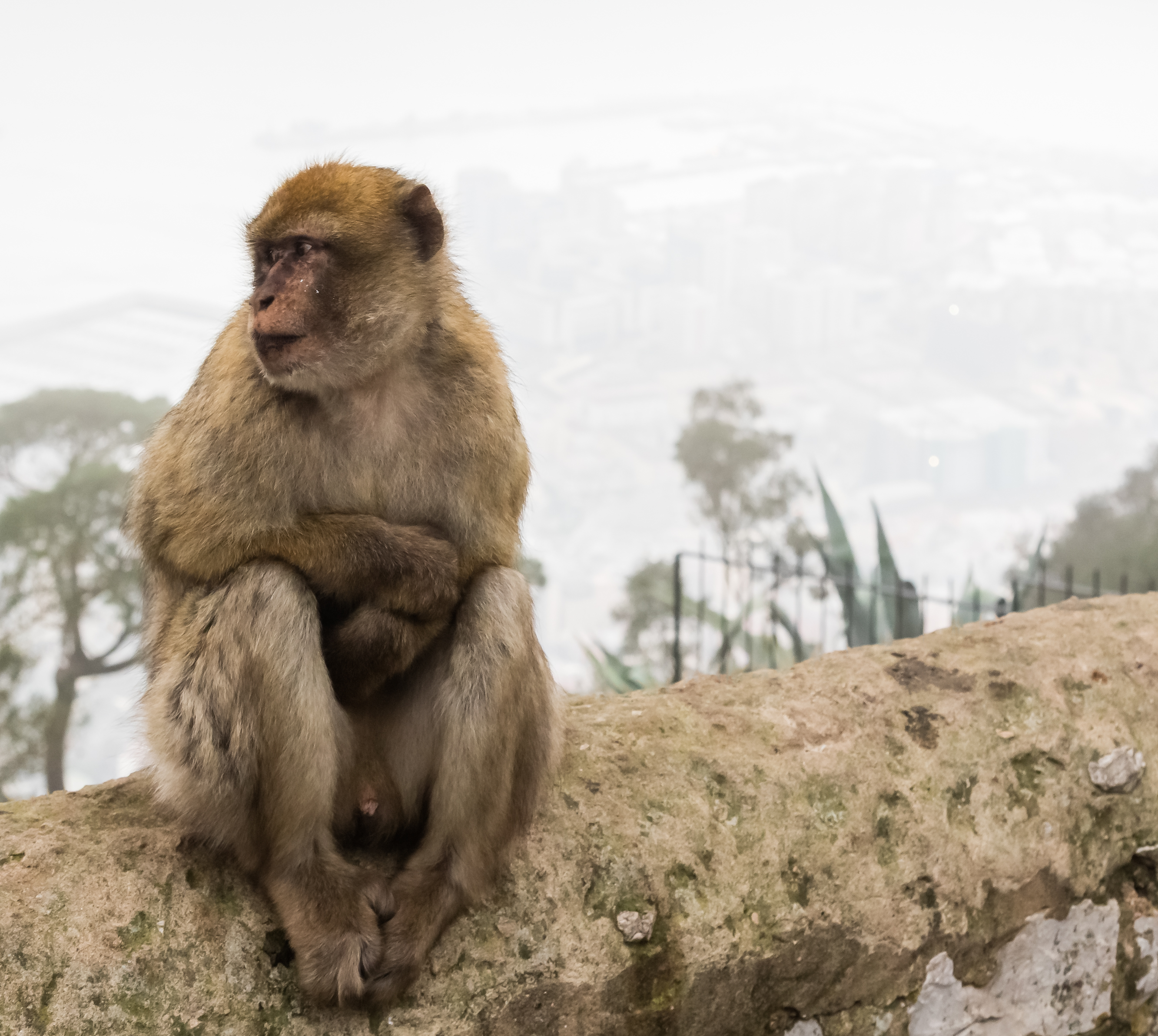 Gibraltar Barbary Macaque (Macaca sylvanus), Rock of Gibraltar